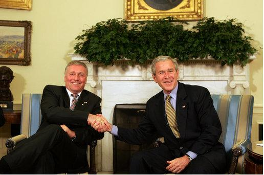 The Czech Prime Minister Mirek Topolánek and the President of the United States George W. Bush